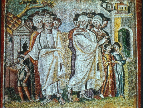 The parting of Lot and Abraham 432-440 Location: mosaic in the nave of Santa Maria Maggiore, Roma